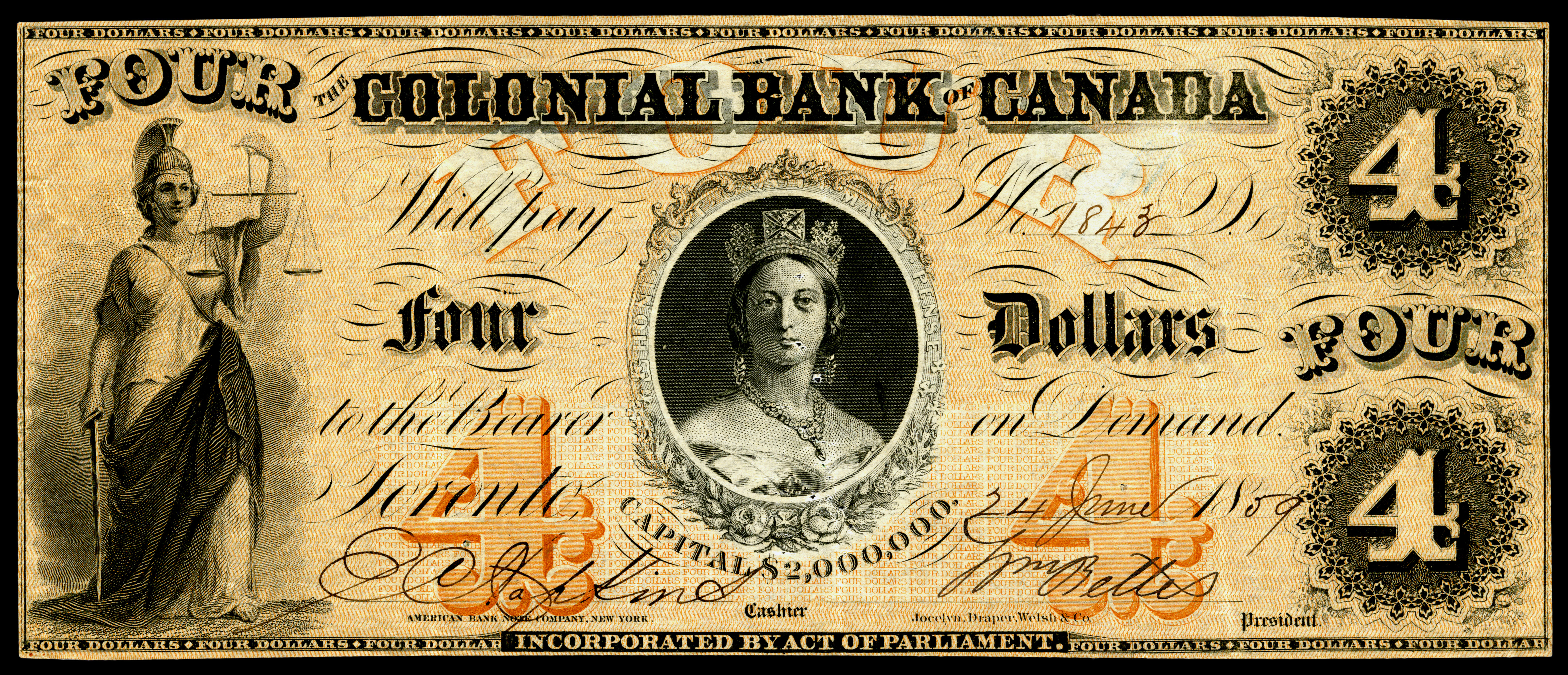 CAN-S1669-Colonial Bank of Canada, Toronto-4 Dollars (1859)